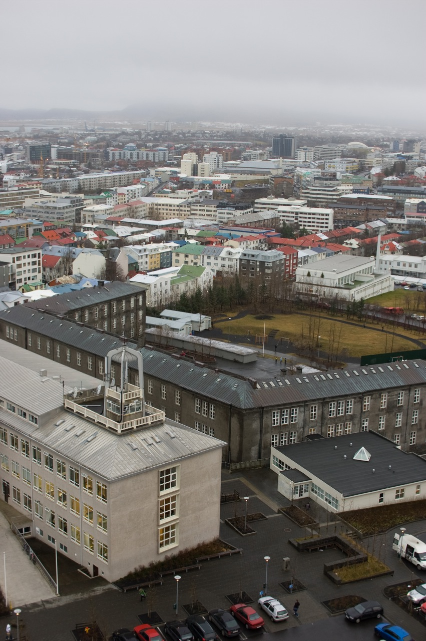 For a time I went to the school on the left to study programming and stuff. That's the Reykjavík Technical School. or Iðnskólinn í Reykjavík. On the right is the old compulsory school Austurbæjarskóli. The picture looks northeastish from the tower of Hallgrímskirkja.